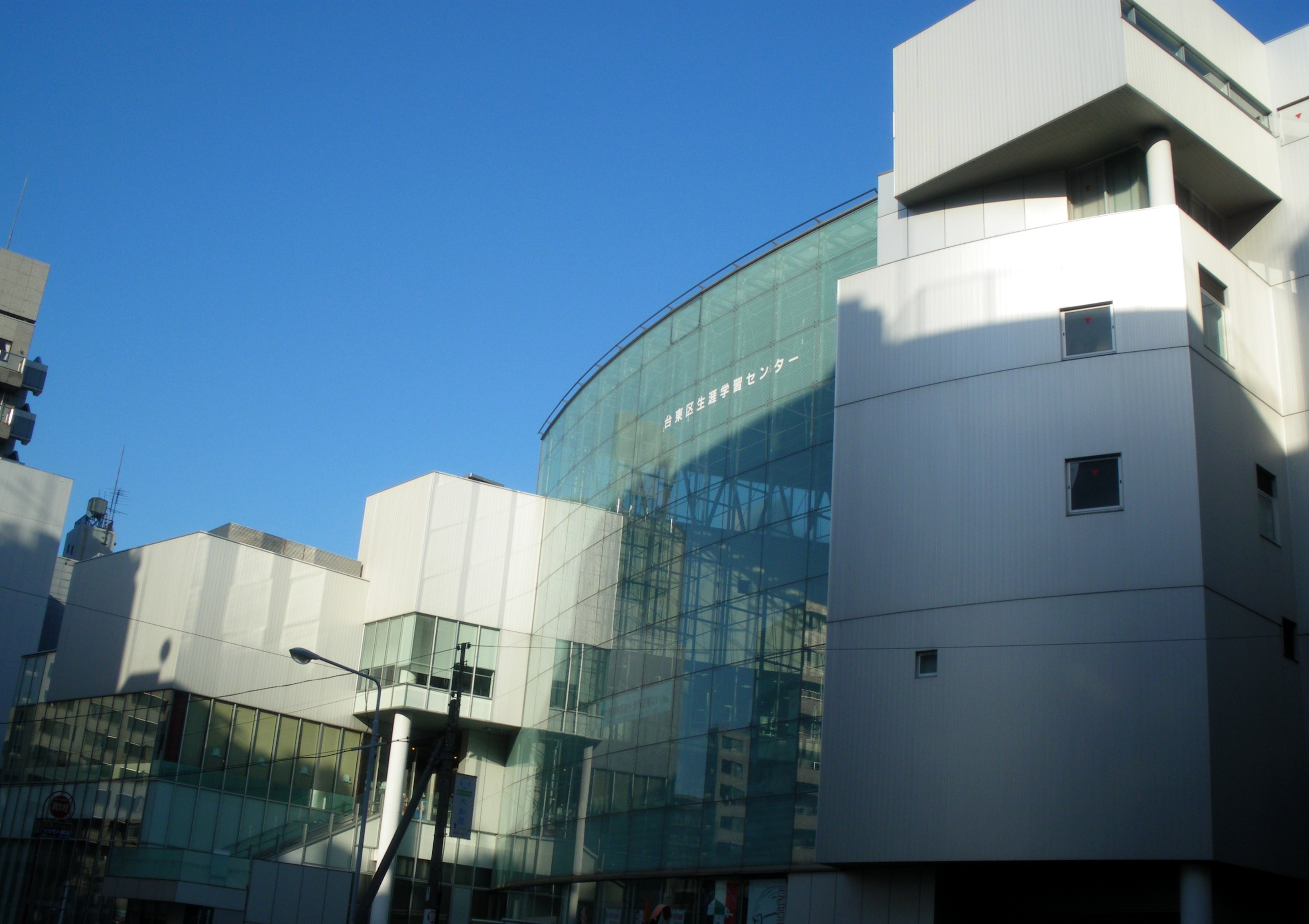 Taito-ku Lifelong Learning Center(Nishiasakusa,Taito,Tokyo)